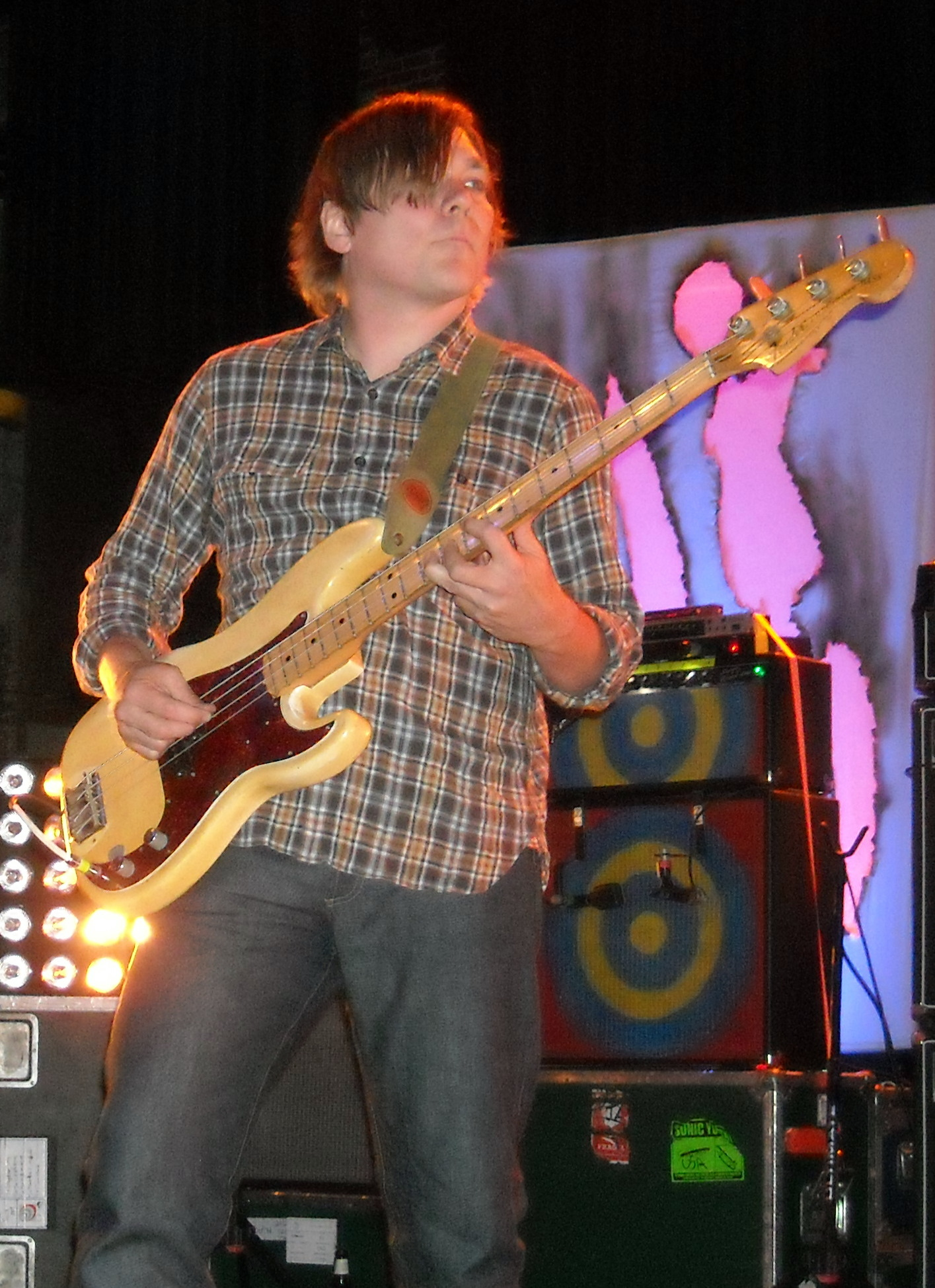 Mark Ibold of Sonic Youth The Bijou: Knoxville, Tennessee